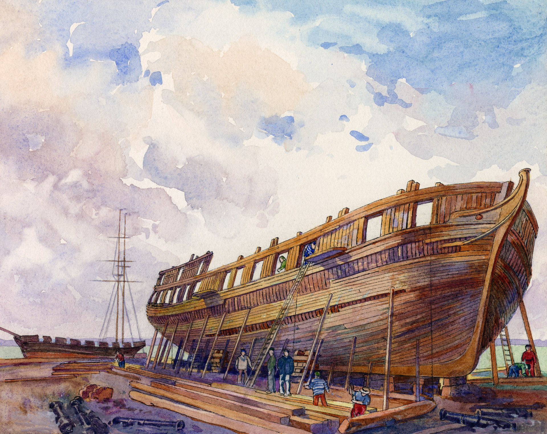 Construction of this ship began in the winter of 1812-13 and may have been one of the contributing factors in the Americans decision to attack the Town of York (the future site of Toronto, Ontario, Canada) in the spring of 1813. The "Isaac Brock" was destroyed by order of General Sheaffe as his forces retreated. Pen & ink over pencil, with watercolour and gouache.